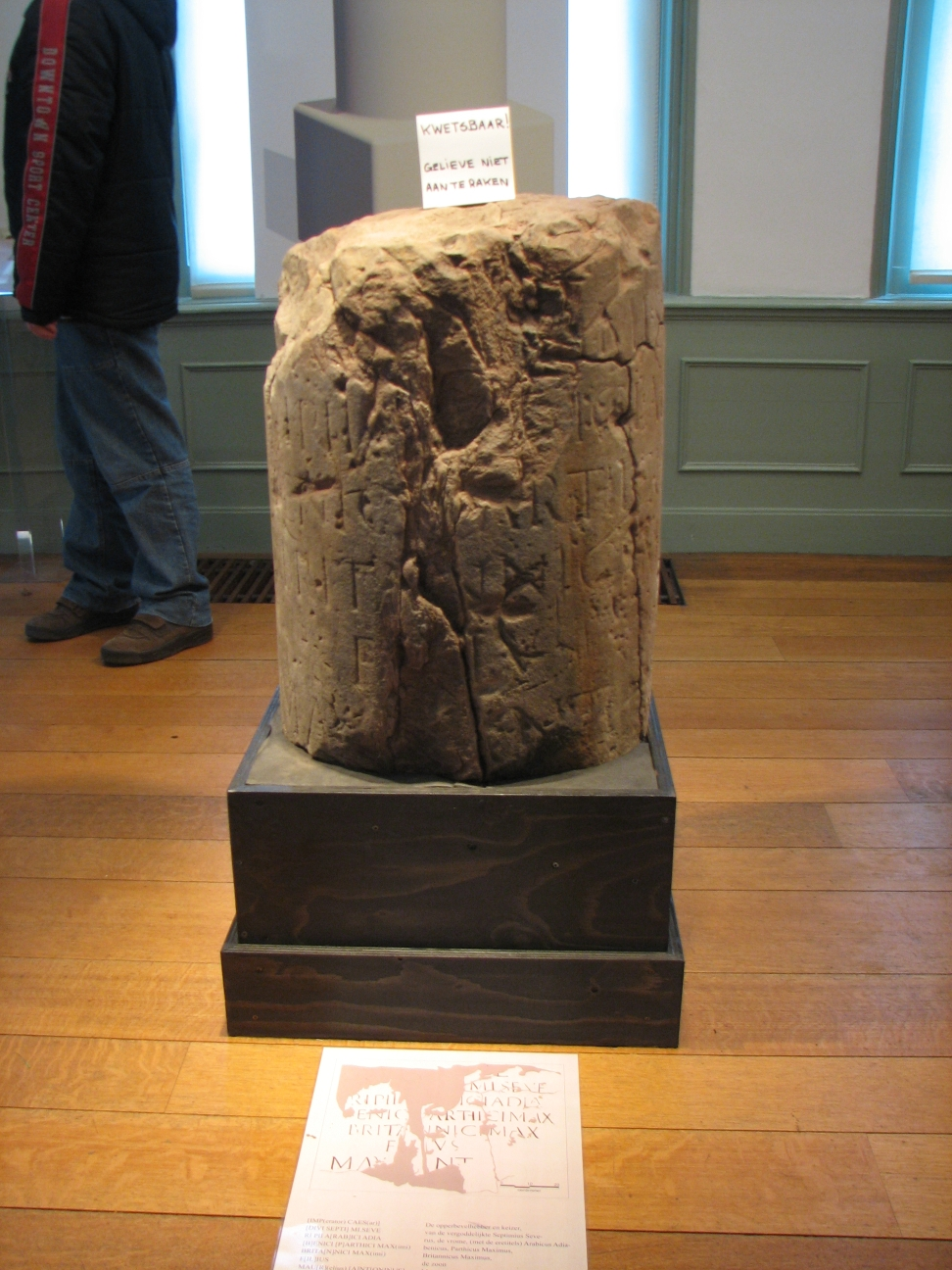 Top part of a Roman milestone (Caracalla's reign) found in Rijswijk in 2005, The Netherlands on display in the Rijswijk Museum, The Netherlands.